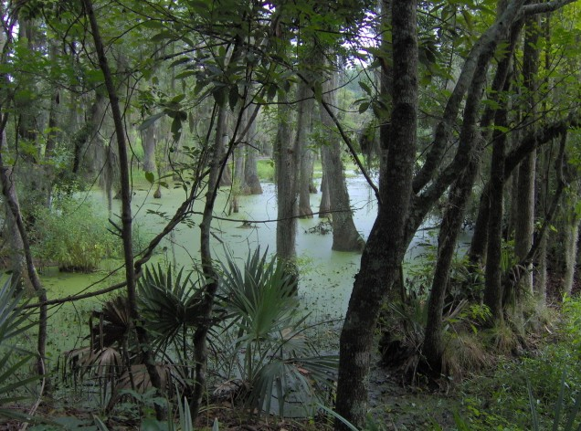 The Audobon Swamp Gardens — at Magnolia Plantation and Gardens. Located in Charleston, South Carolina, in the southeastern United States.